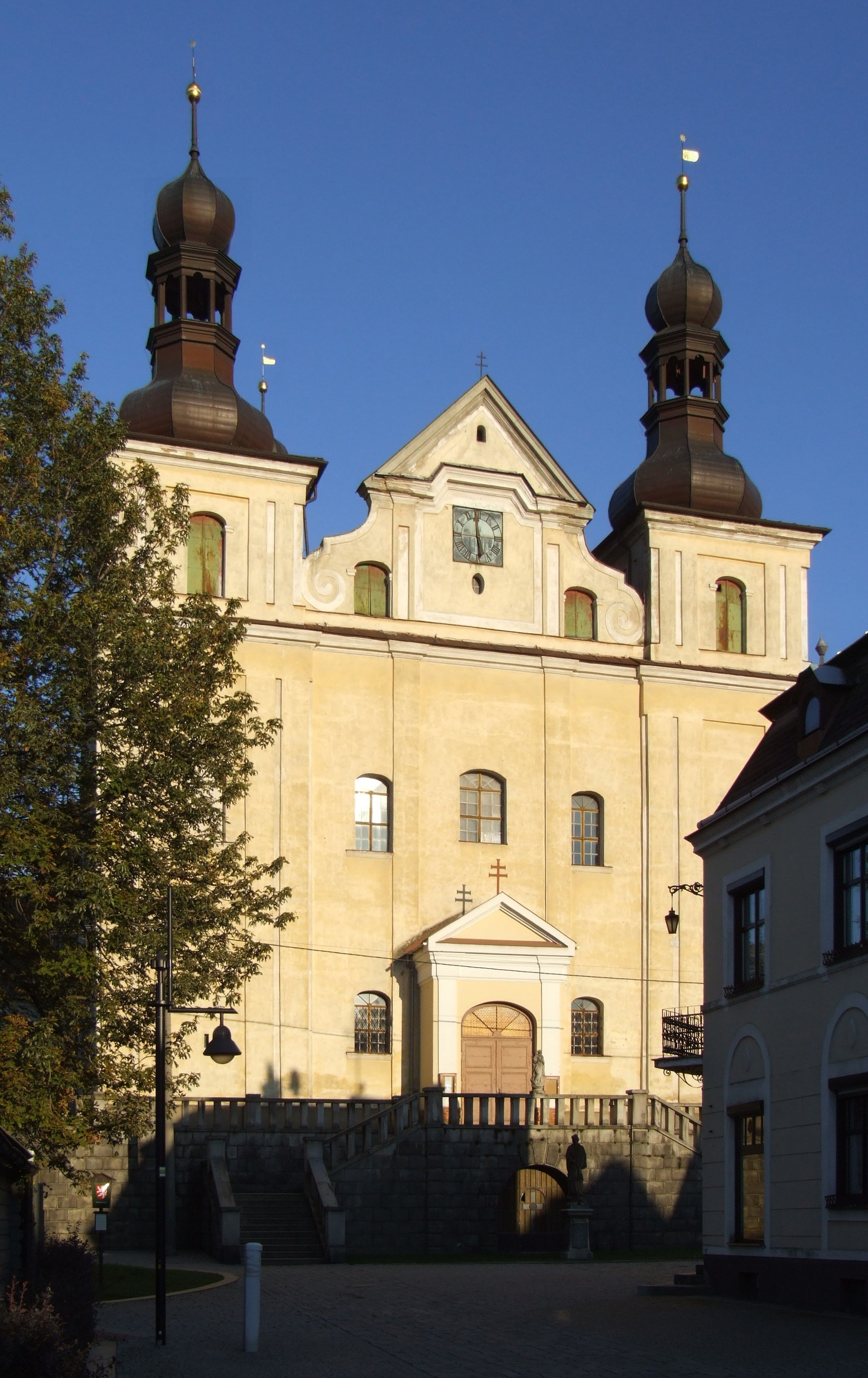 Zlaté Hory (Zuckmantel), Czech Silesia - main church in autumn